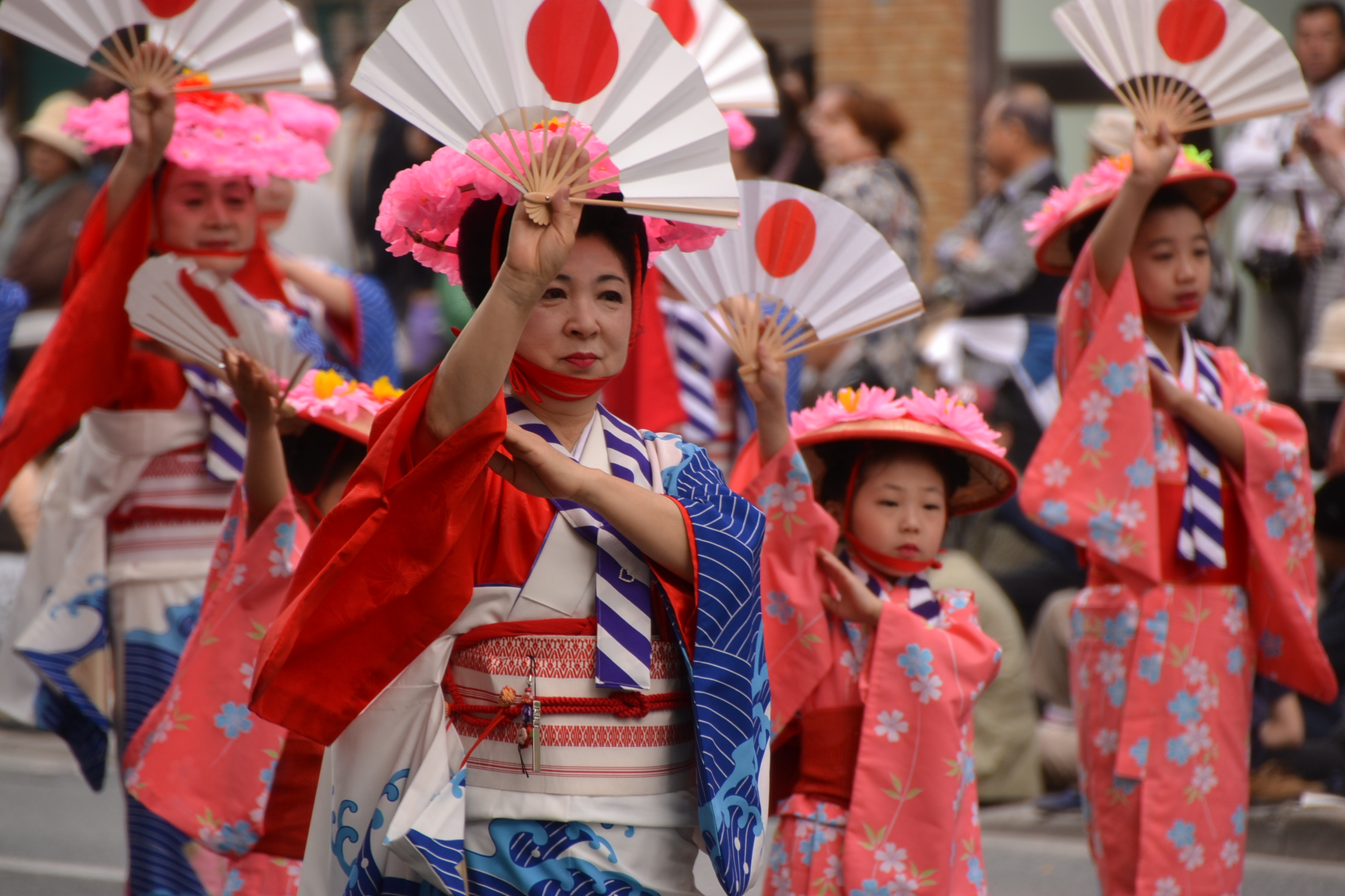 Hakata Dontaku Festival Parade 2011-05-04